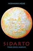 Book cover for the Esperanto translation of Hermann Hesse's Siddhartha. Cover provided by Mondial dezigned by Uday K. DharEsperanto: Kovrilo de la libro "Sidarto" eldonita per Mondial, Dezajno de Uday K. Dhar.